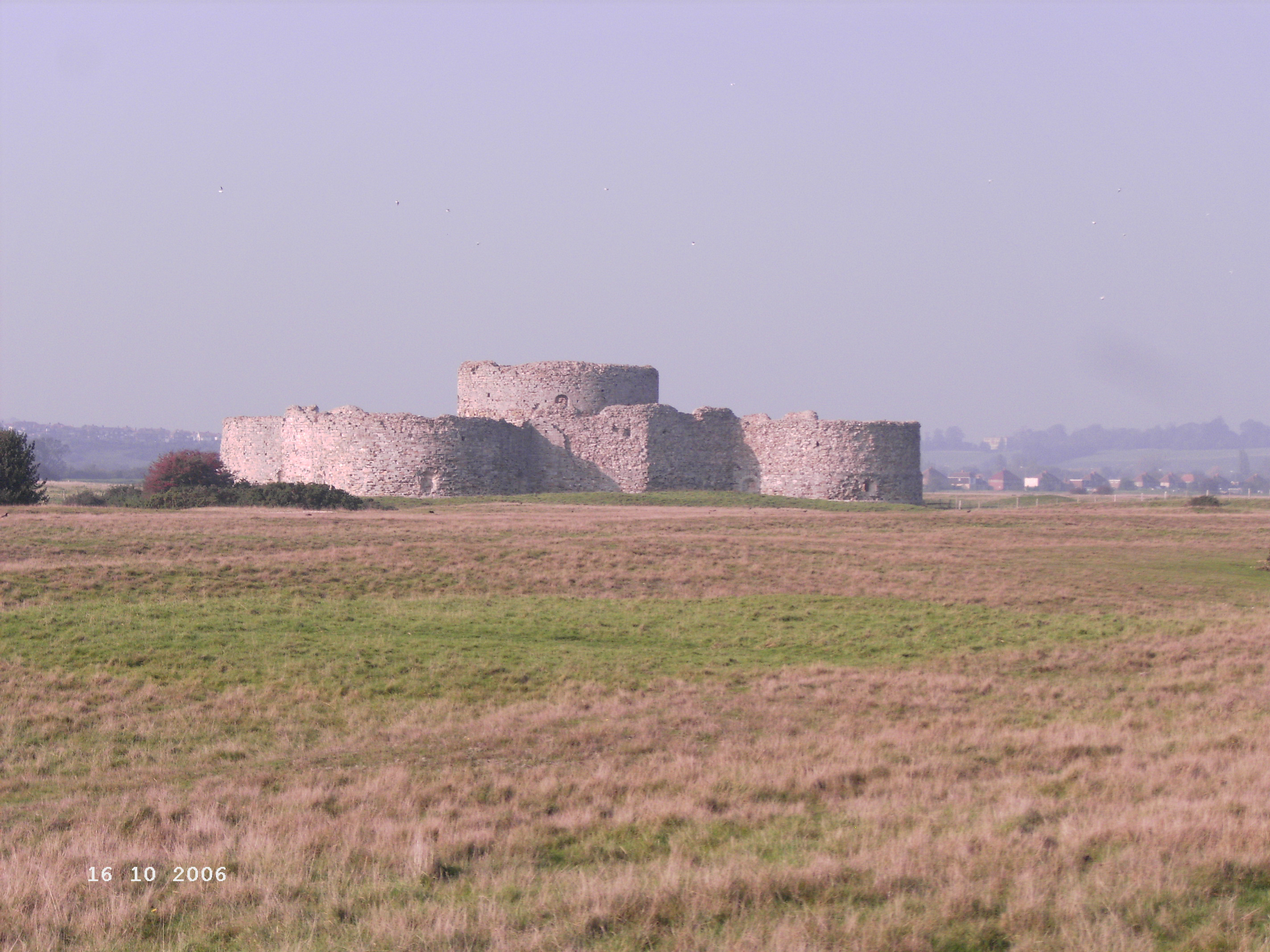 CamberCastle